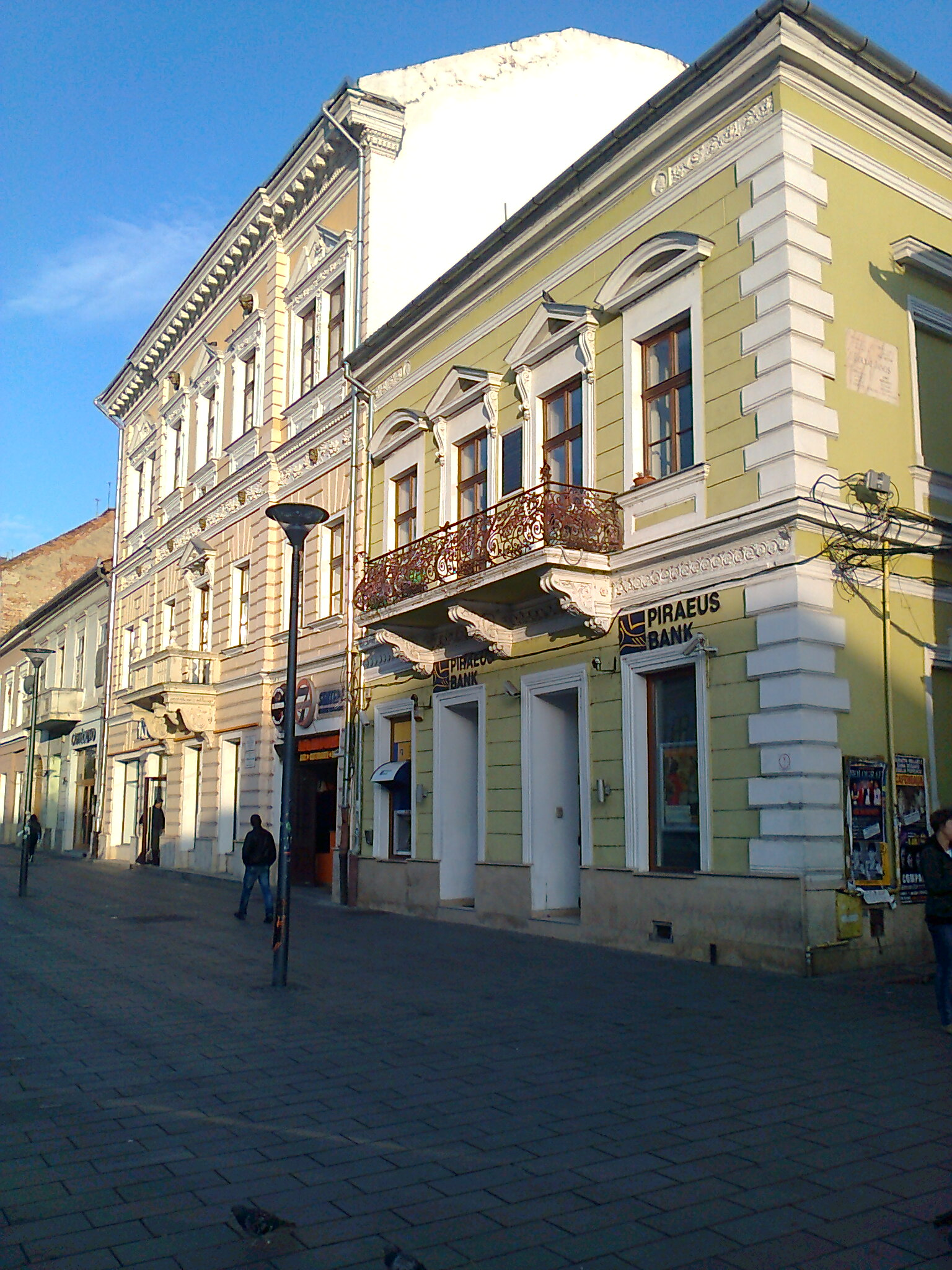 Birth house of János Bolyai in Cluj